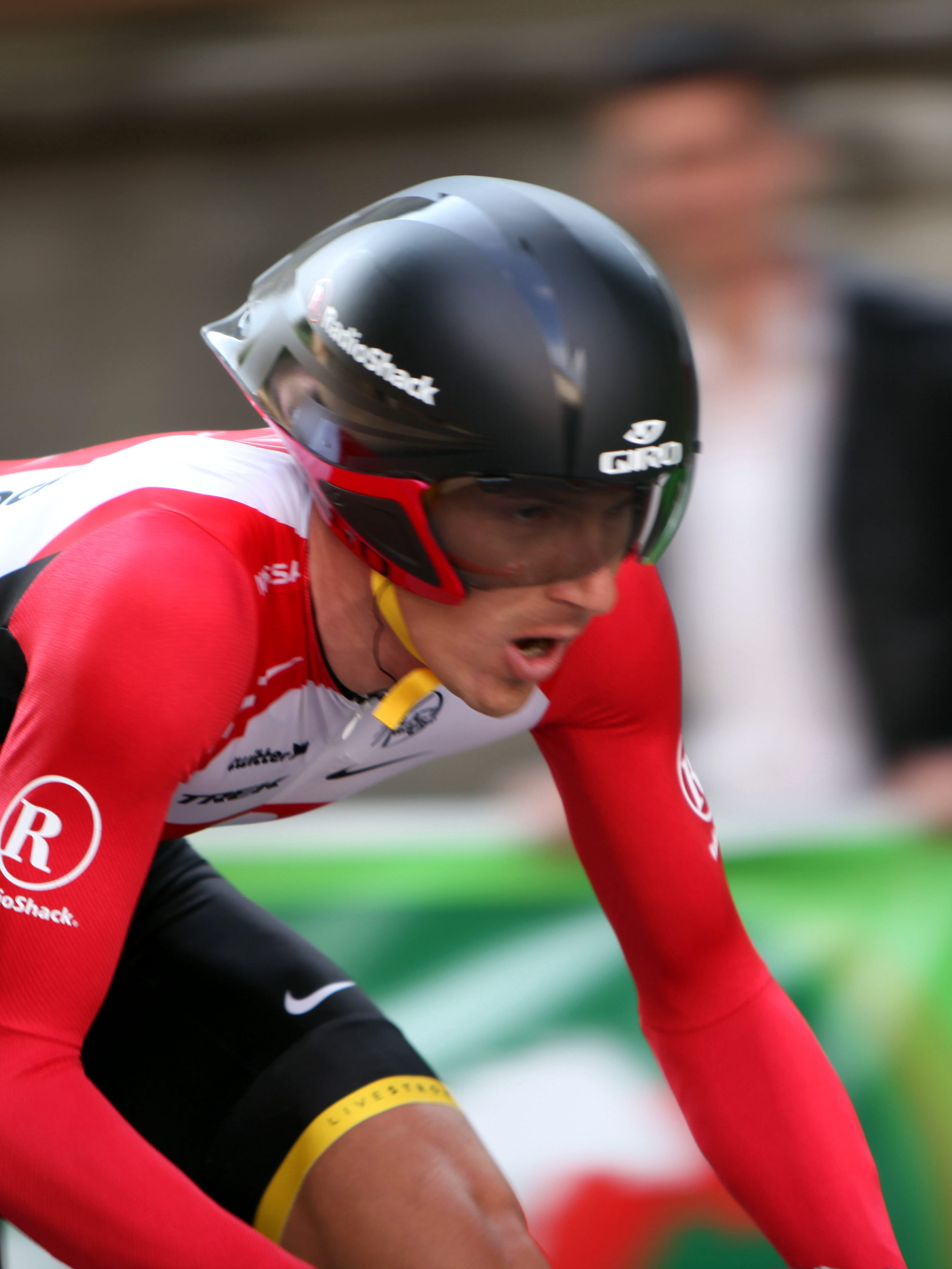 Dimitry Muravyev at the prologue of the Tour de Romandie 2011